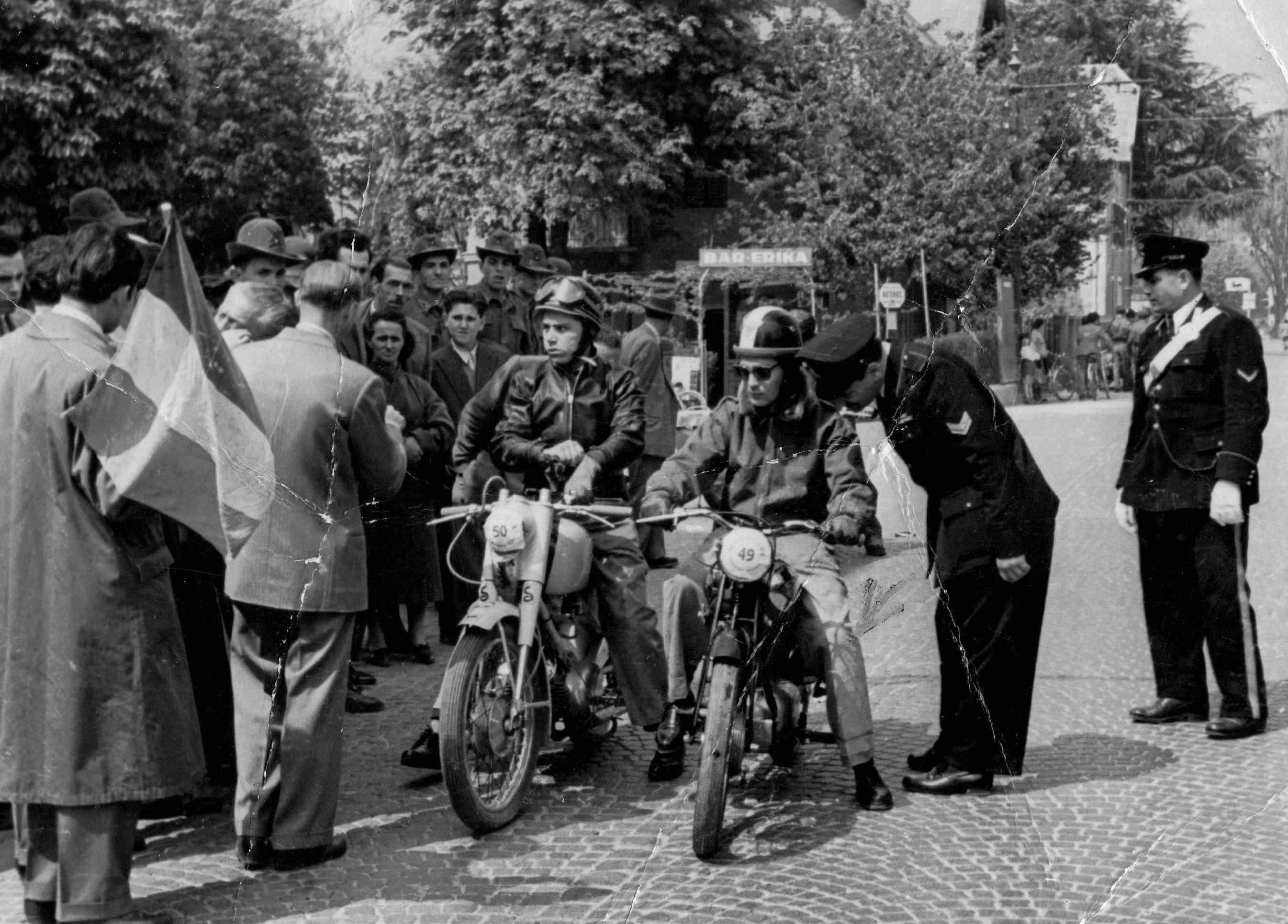 Ein RT 125 Motorrad des Meraner Amateur-Rennfahrers Eugenio Beltrami (r.), Strassenrennen in Meran, Piavestrasse, 1950